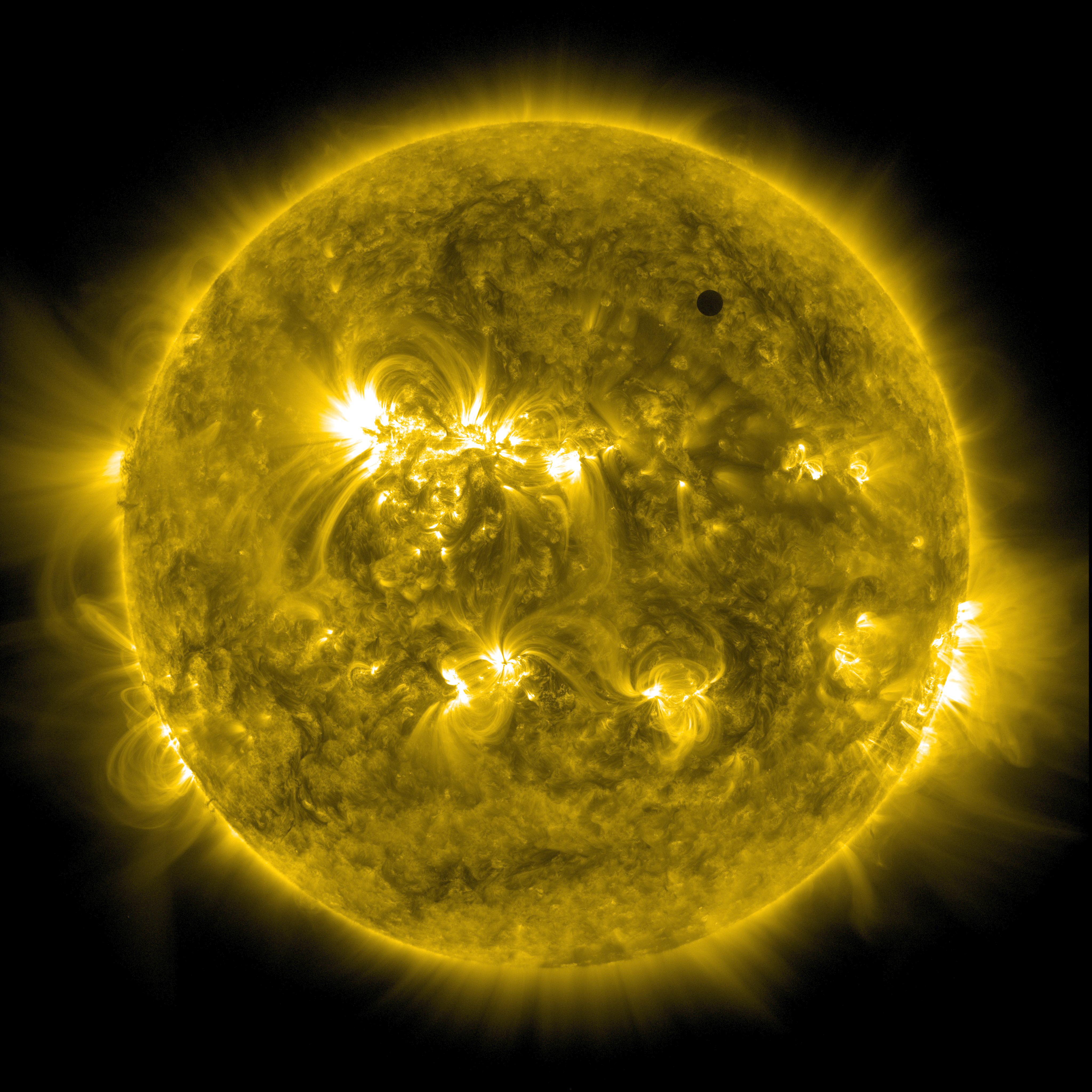 On June 5-6 2012, SDO collected images of the rarest predictable solar event--the transit of Venus across the face of the sun. This event happens in pairs eight years apart which are separated from each other by 105 or 121 years. The last transit was in 2004 and the next will not happen until 2117.